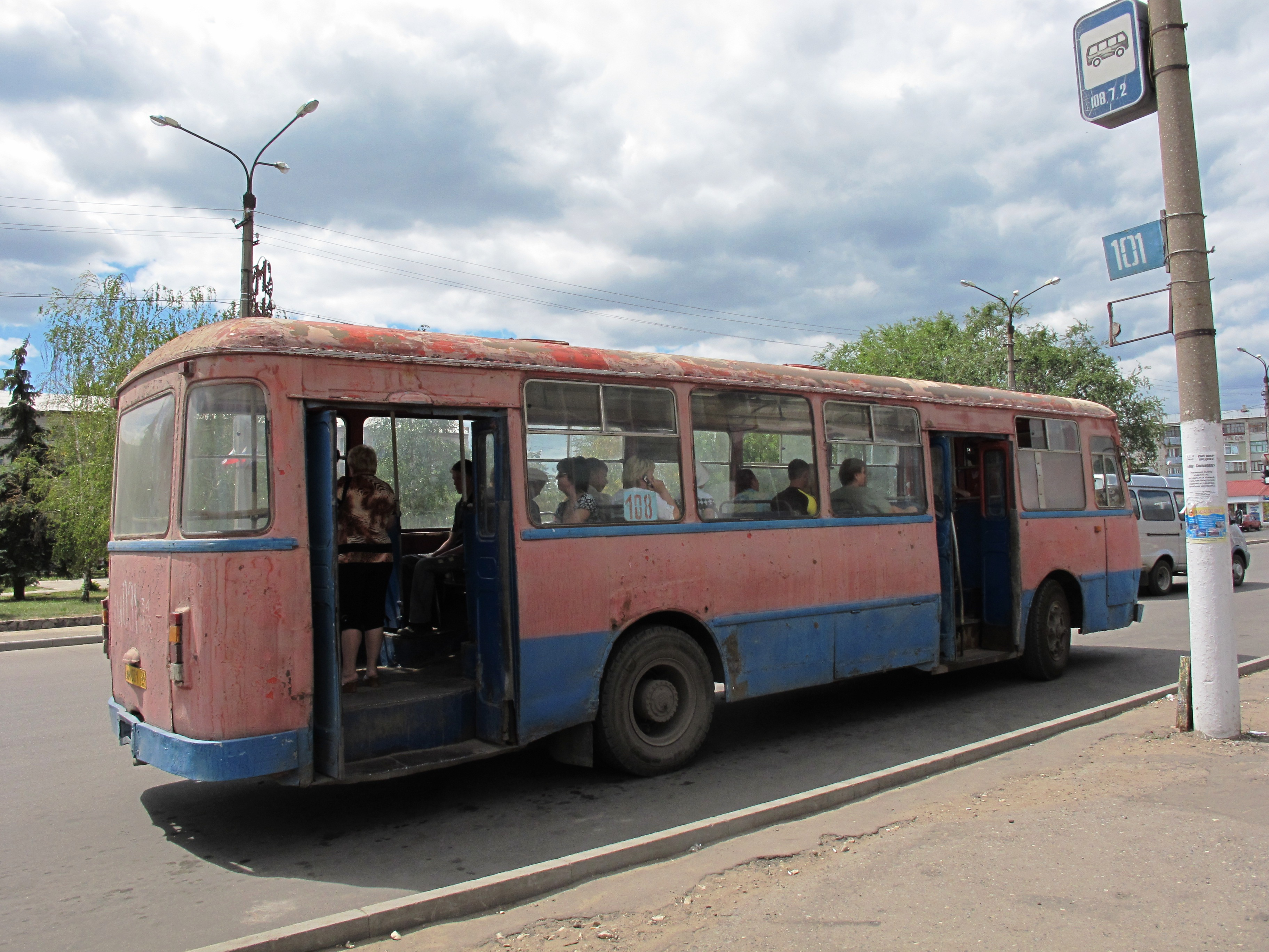 A Bus in Uryupinsk, Russia.